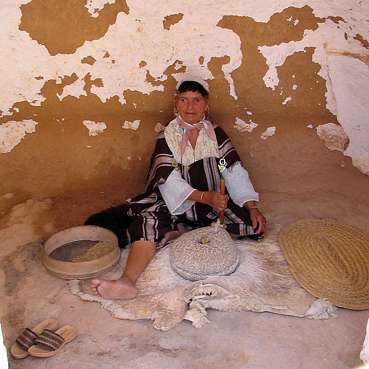 Berber woman in Tunisian desert